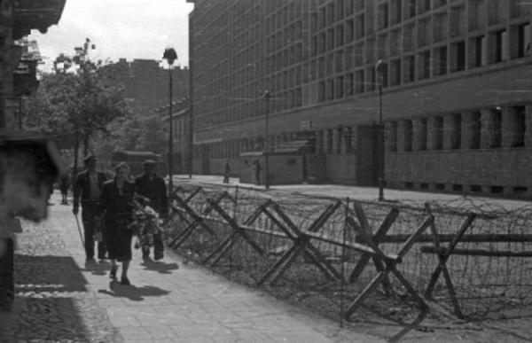 Month before WarsawUprising: Barbed wire obstacles “Cheval de fries” and a bunker at the entrance to German hospital in the building of polish courthouse at Ogrodowa 12/14 Street.